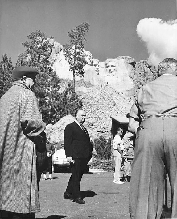 Alfred Hitchcock at Mount Rushmore during the filming of North By Northwest.